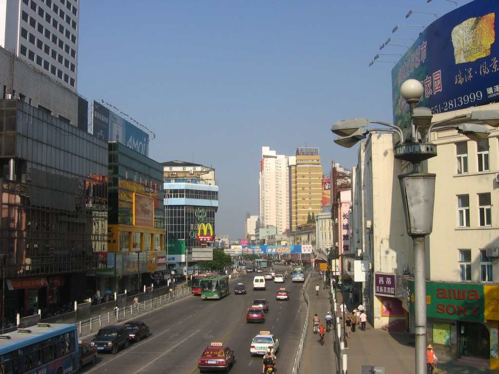 Hefei, the capital of Anhui province in the People's Republic of China. This is Sipailou, a downtown business district.